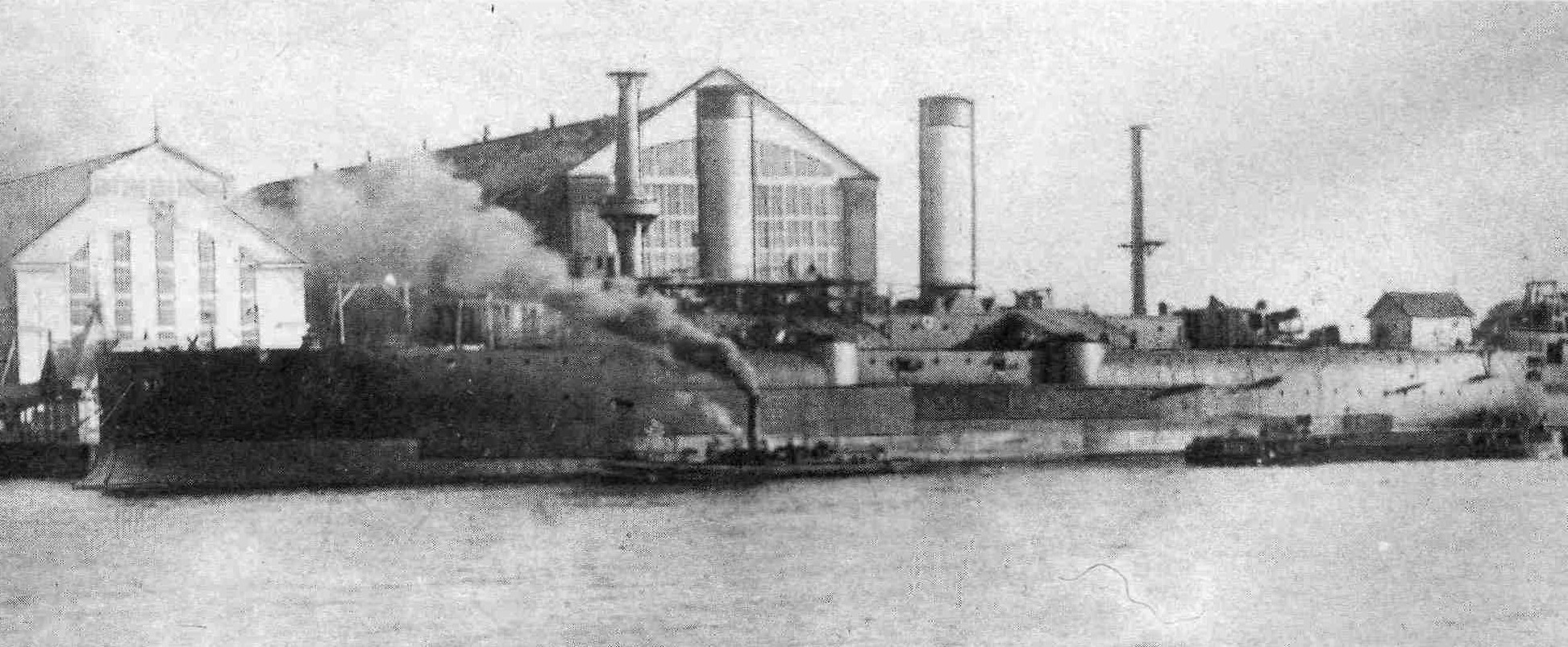 Battleship Petropavlosk in completion.